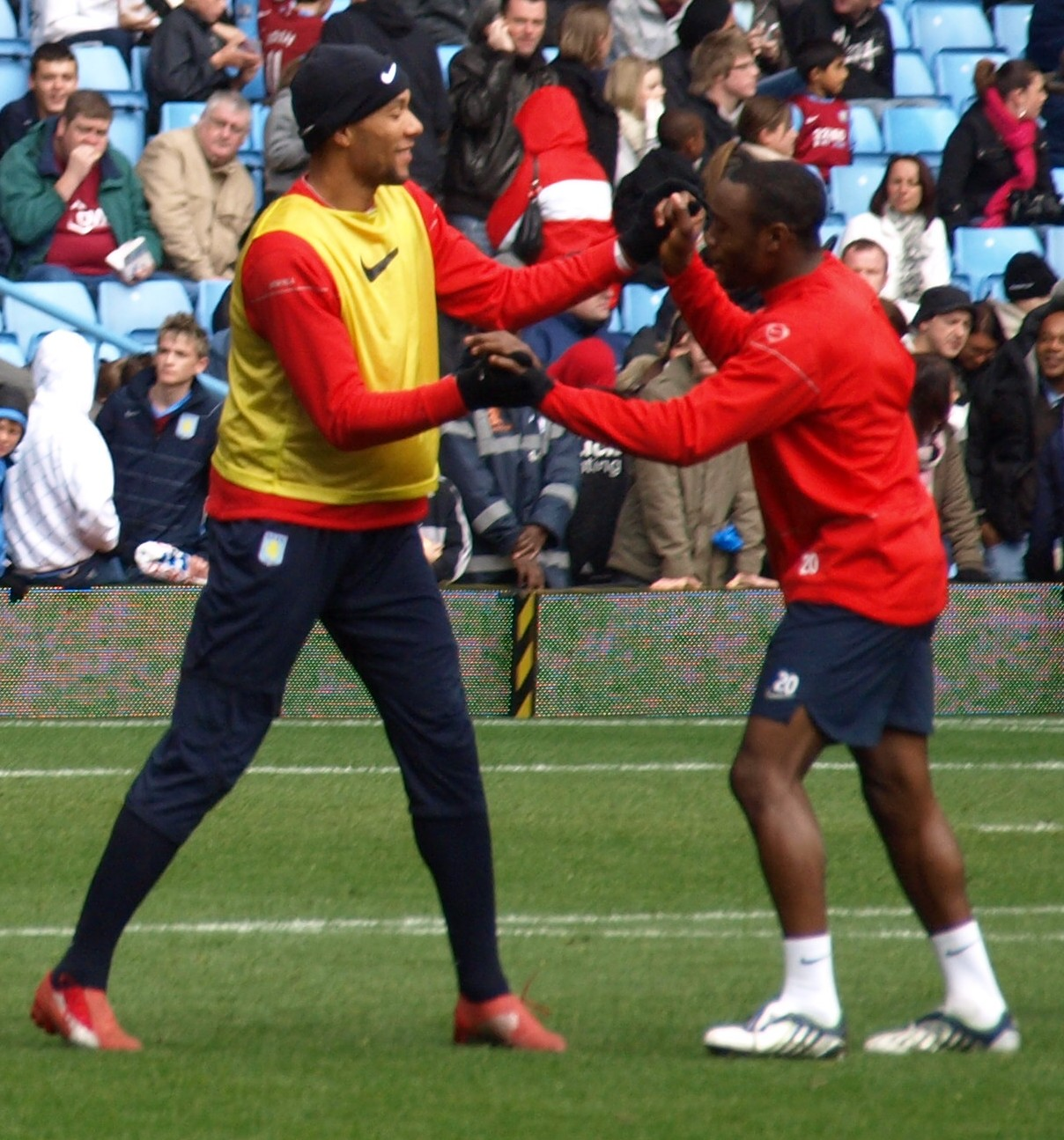 John Carew and Nigel Reo-Coker have a wrestle... Picture by Gus Stephens